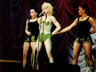 Photo taken by a fan during one of the concerts in 1990